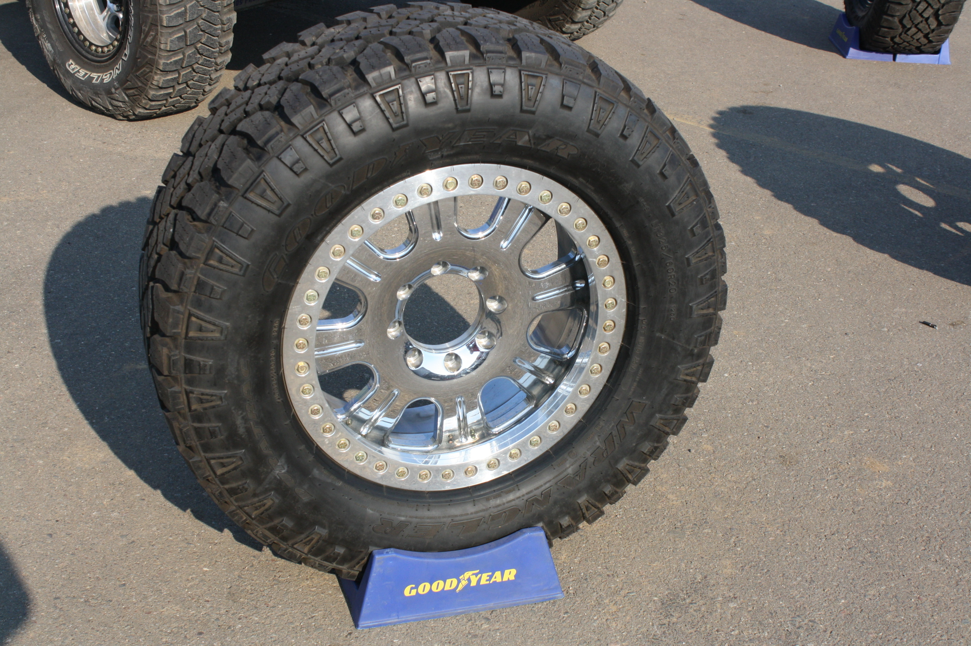 A Goodyear DuraTrac off-road tire on display at the Crandon International Off-Road Raceway world championship weekend.